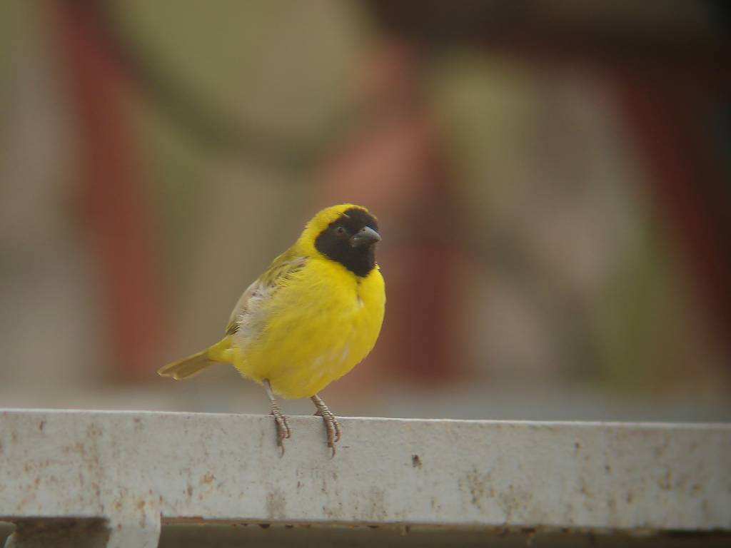 Ploceus luteolus in Palmarin (Senegal)